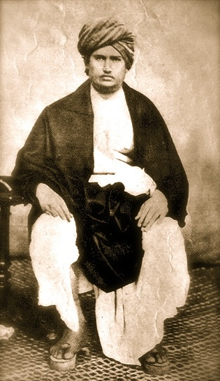 Srijut Krishnaravji took this photograph of Dayananda Saraswati in Jabalpur in 1874 when he accepted an invitation to come to his house